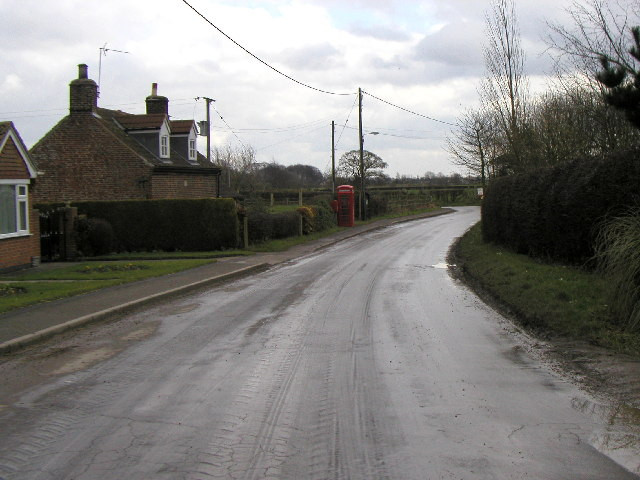 Lowthorpe, East Riding of Yorkshire, England.Photo taken on a wet February day at MR: TA08226050 looking along the main street.